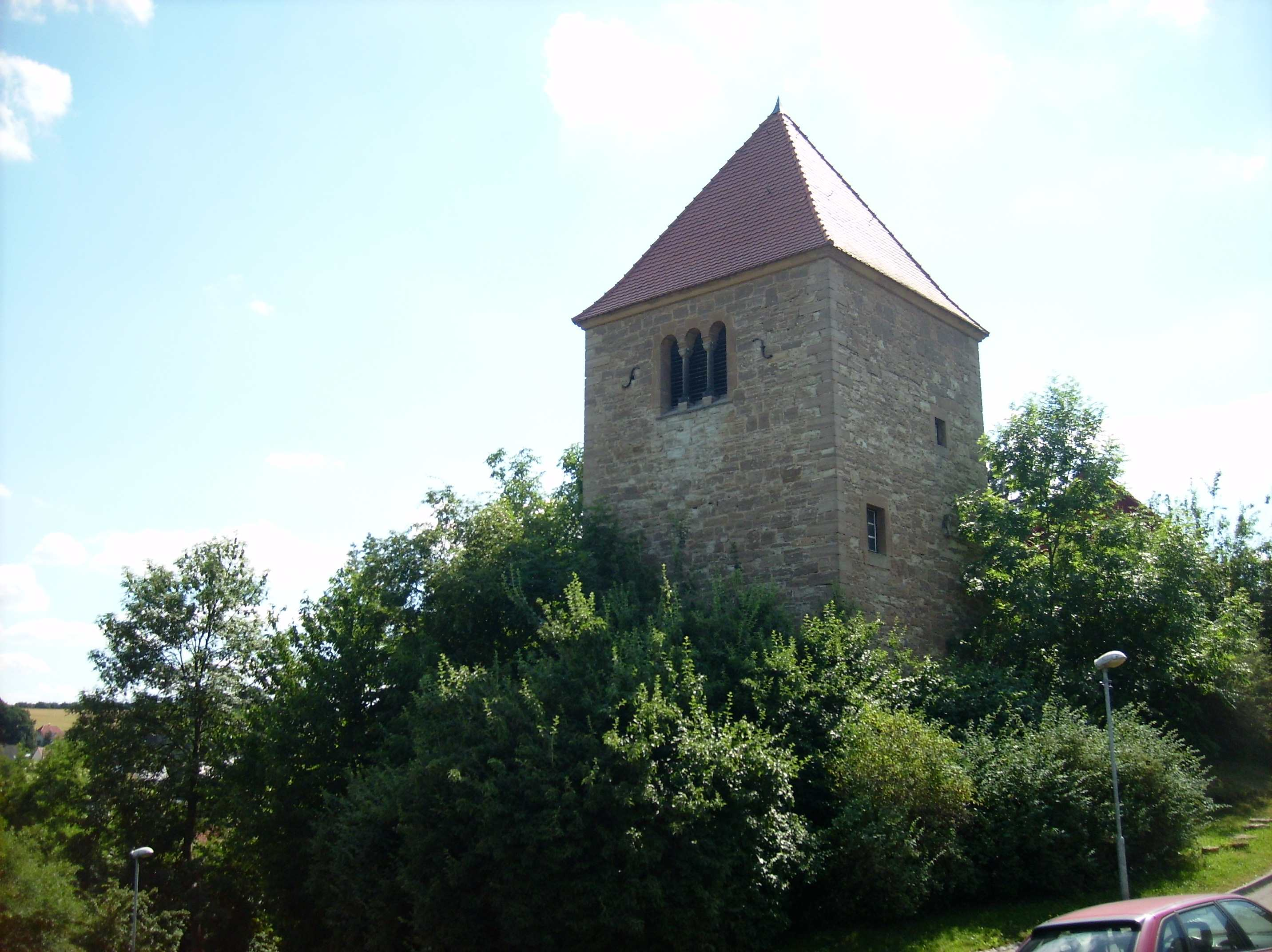 Bell tower in Hartmannsdorf near Eisenberg (district of Saale-Holzland-Kreis, Thuringia)